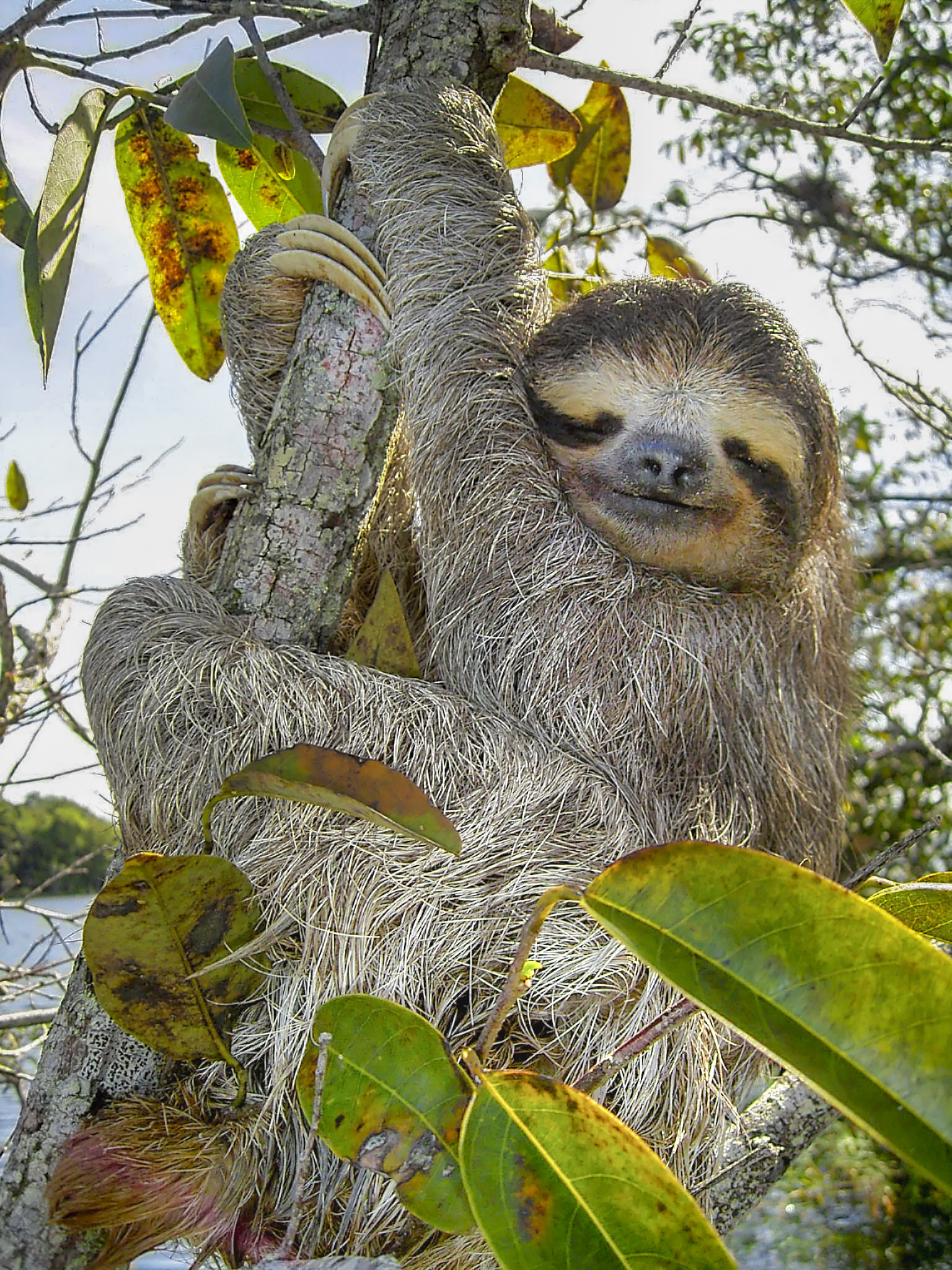 Three-toed-sloth (Bradypus variegatus), Lake Gatun, Republic of Panama.